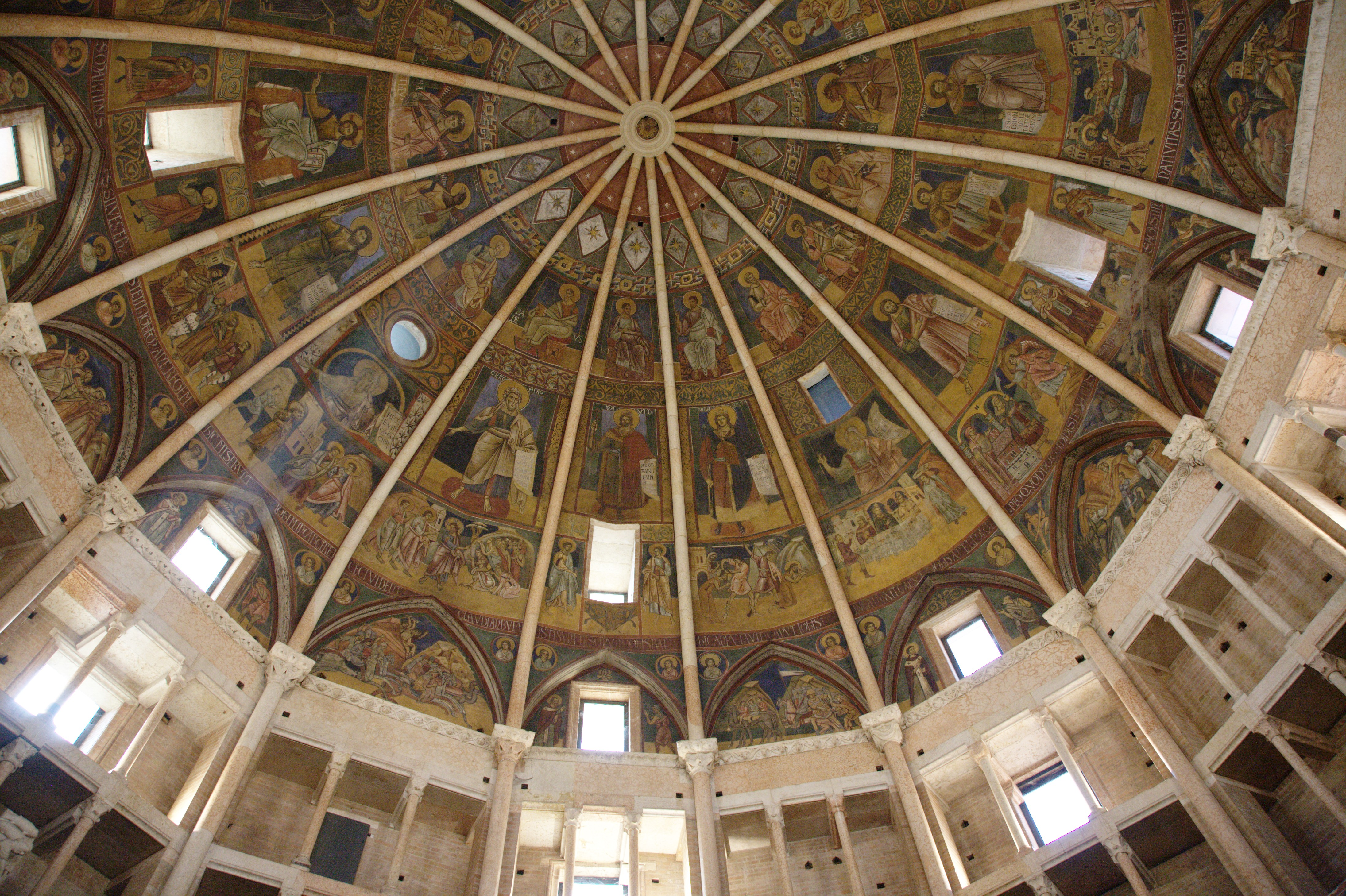 From the interior of the Baptistry of the Duomo in Parma